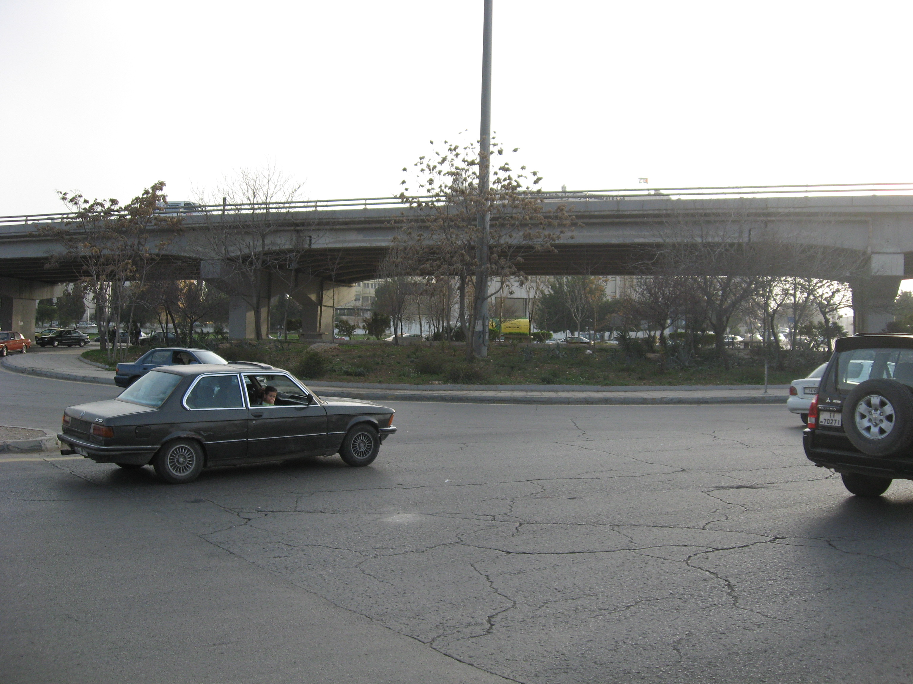 The 8th Circle, Amman, March 2008.